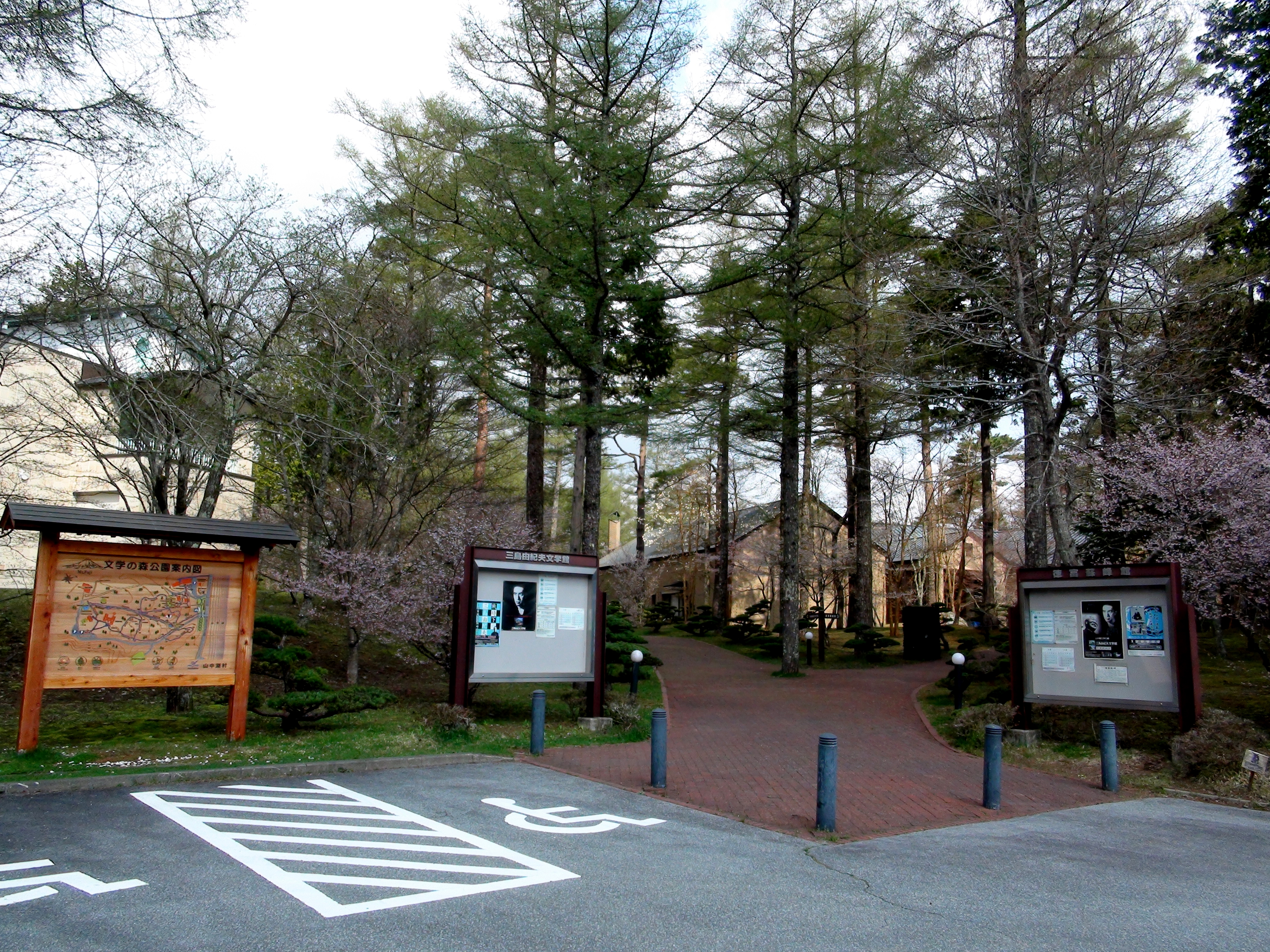 Lake Yamanaka Forest Park of Literature Two museums